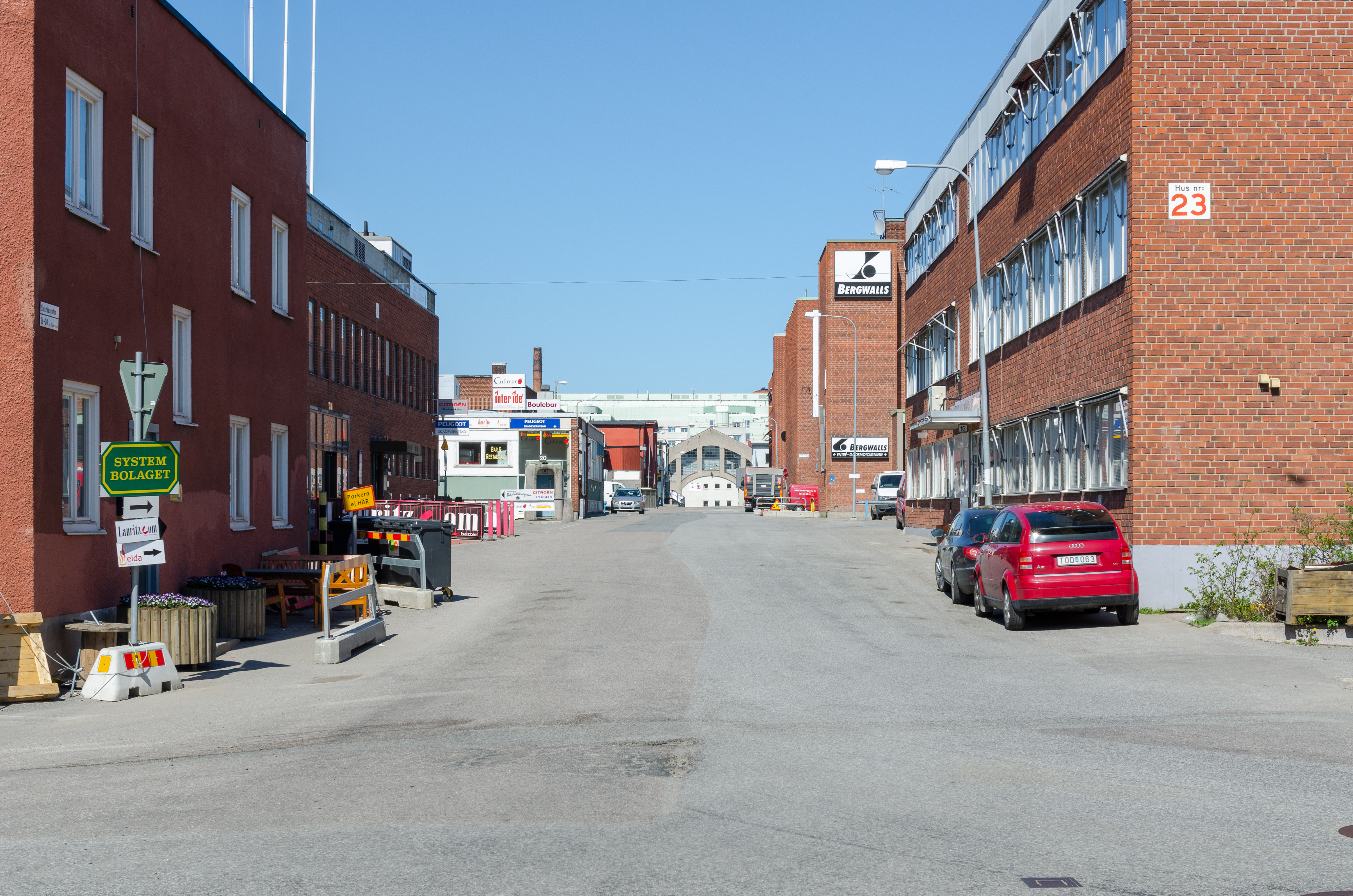 Slakthusgatan (the Slaughterhouse street) in Slakthusområdet (The slaughterhouse area). Slakthusområdet is located in Johanneshov, a district of Stockholm, Sweden, located in the borough of Enskede–Årsta–Vantör.